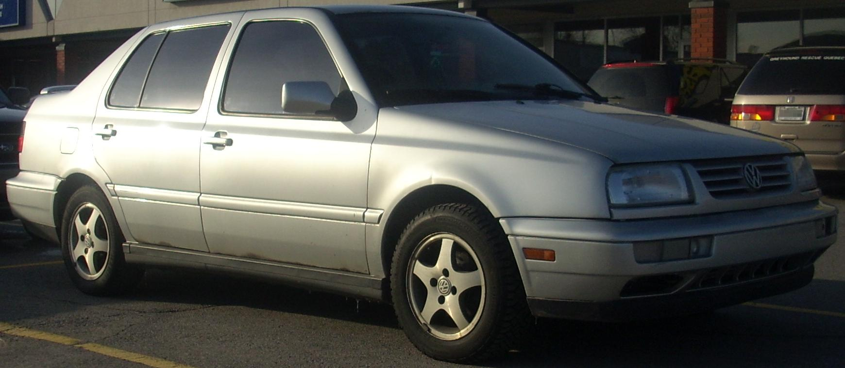 1996-1998 Volkswagen Jetta photographed in Montreal, Quebec, Canada.